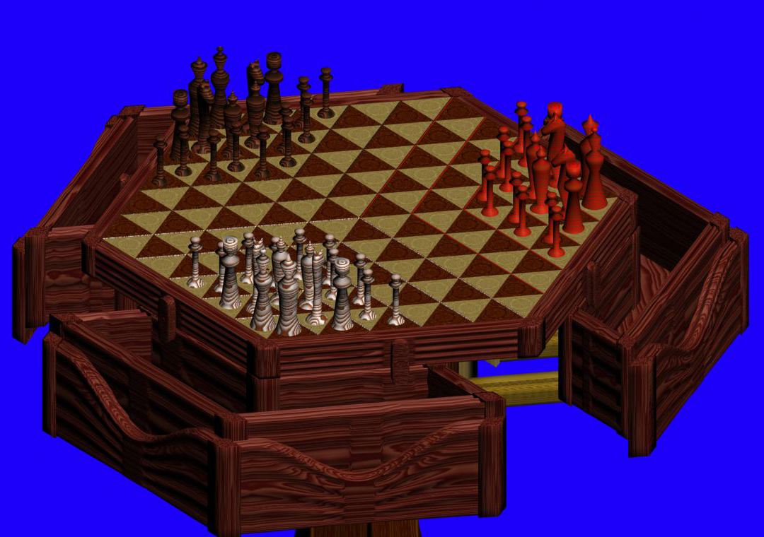 Chess table for game three together